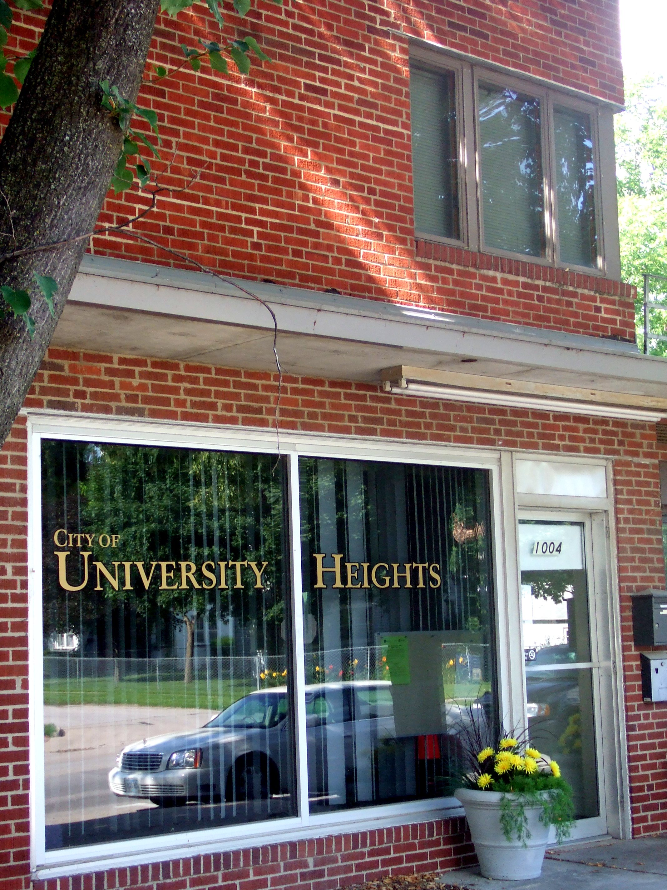 City offices in University Heights, Iowa.